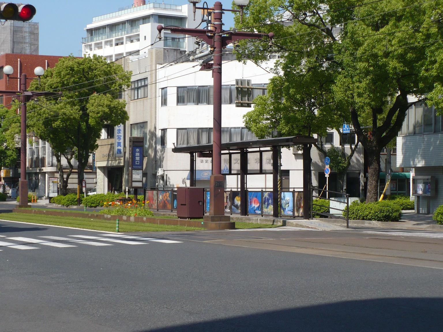 Suizokukanguchi tramstop of Kagoshima city transportation bureau, Kagoshima city Kagoshima prefecture Japan.